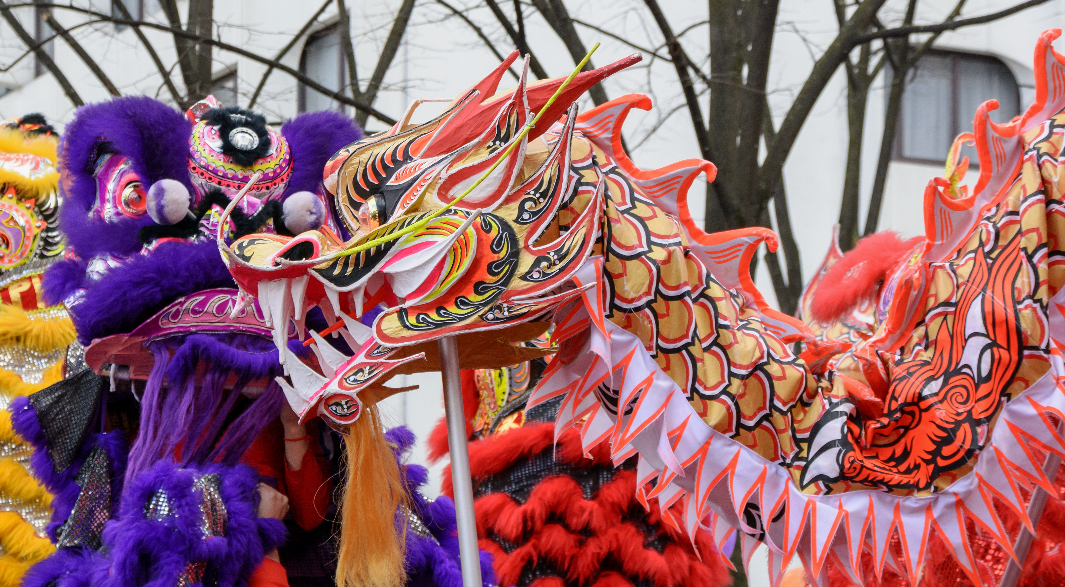 Dragon danse and lion dance during Chinese New Year 2015 in the 13th arrondissement of Paris